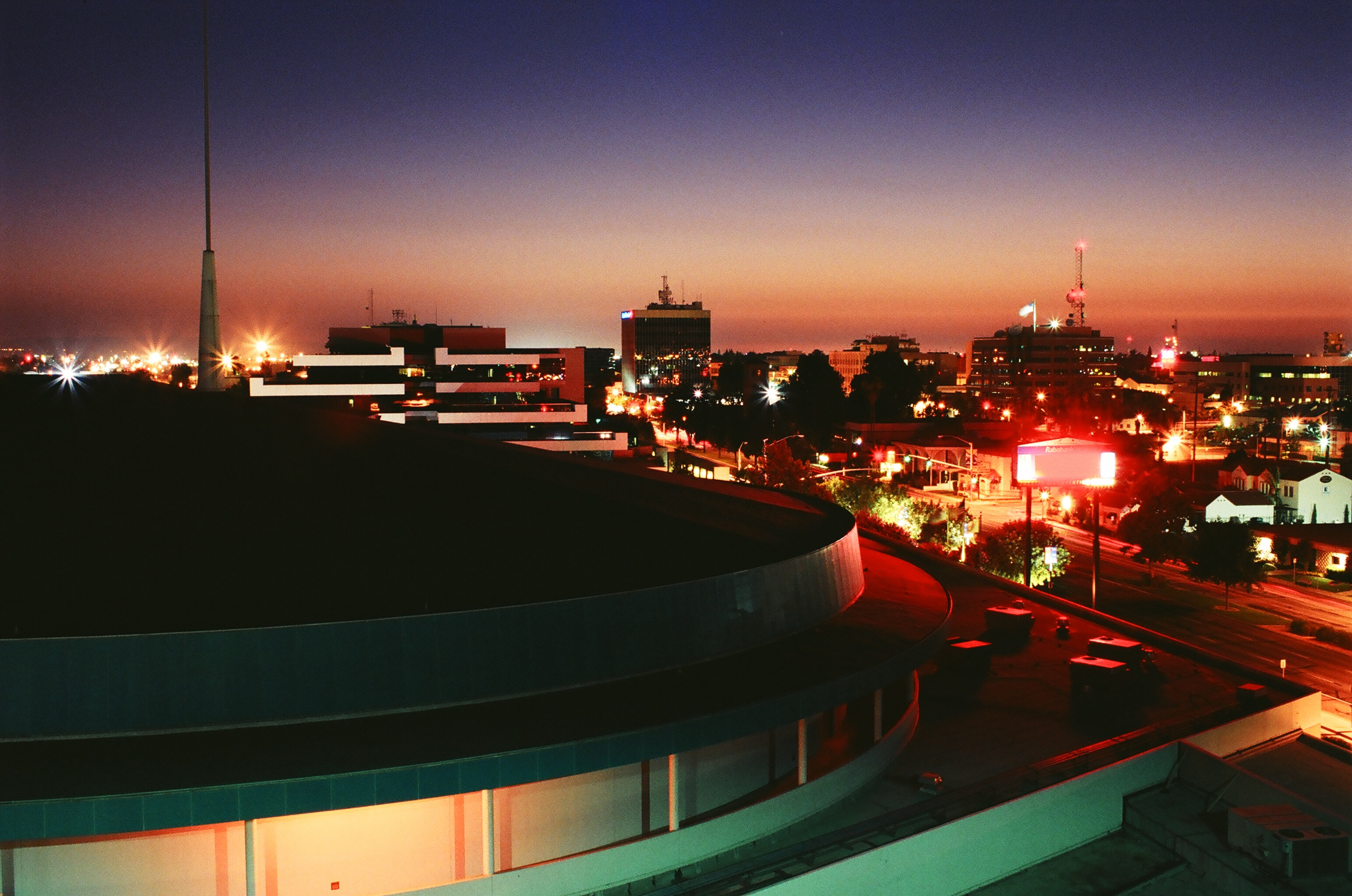 Bakersfield skyline at night with the Rabobank Arena in the foreground.